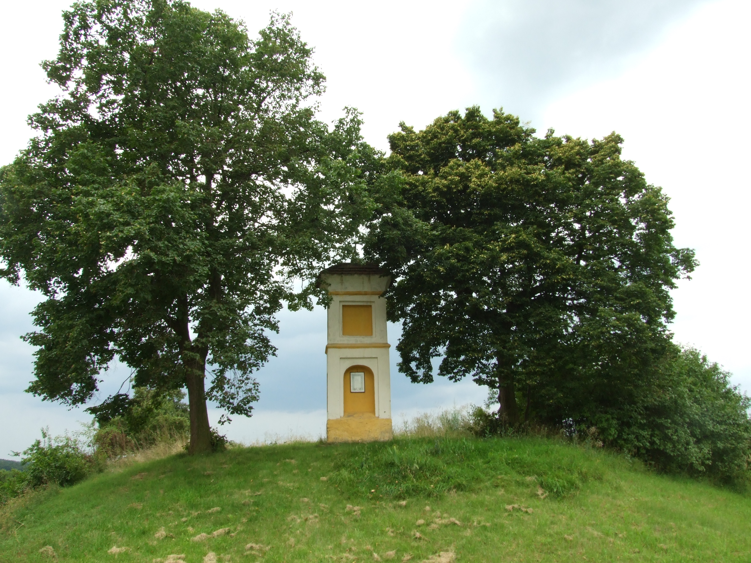 Hřešice (Pozdeň) - wayside shrine on the western edge of the village, Central Bohemian Region, CZ